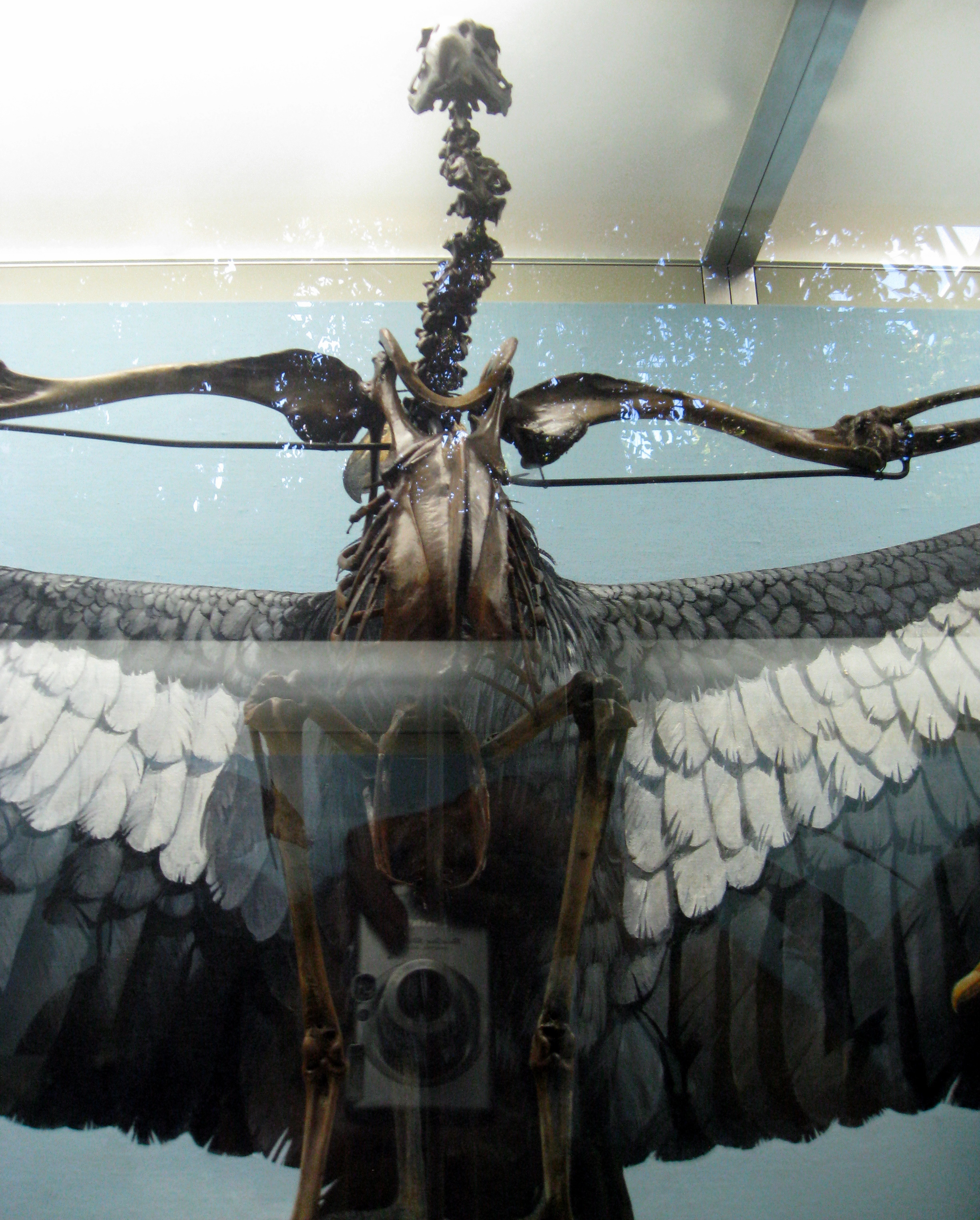 Exposition Park